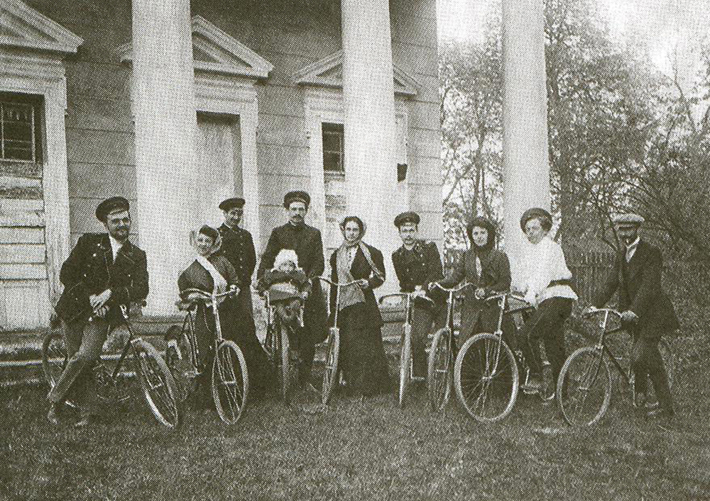 Location: modern Belarus.